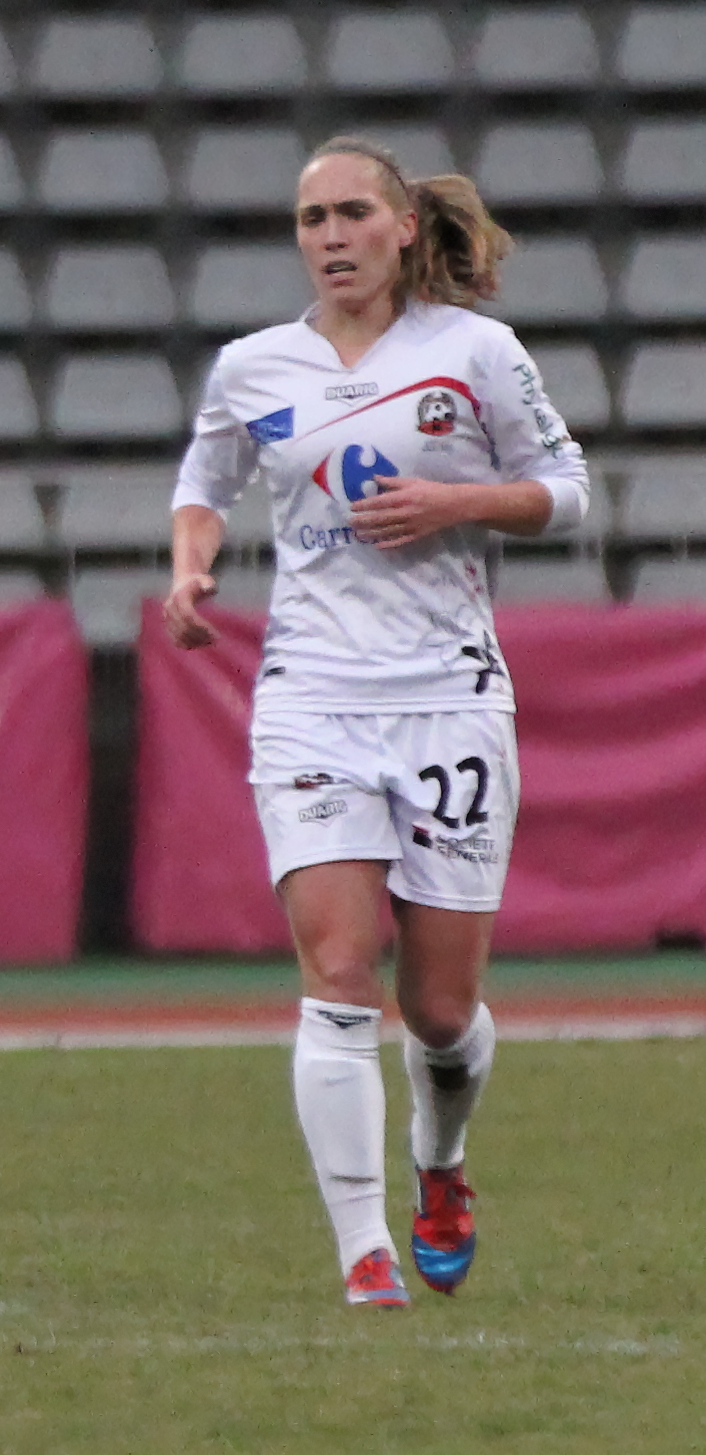 PSG-Juvisy, december 9th, 2012.